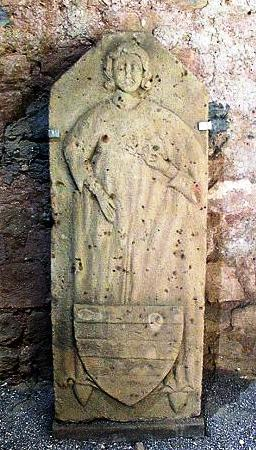 Tombstone of Lord Gerlach Breuberg on Breuberg Castle